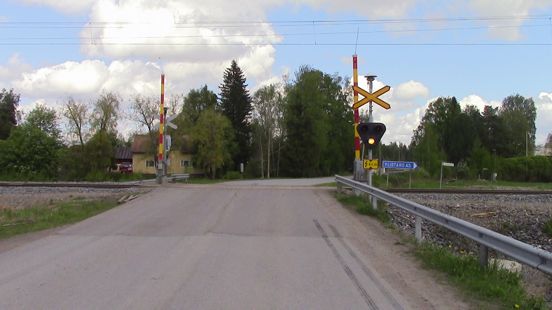 Finnish connecting road 7000 at Ylistaro's railway village in Seinäjoki. The road runs from Koskenkorva to Ylistaro.